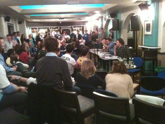 An Election Question Time for election candidates at the University of Nottingham